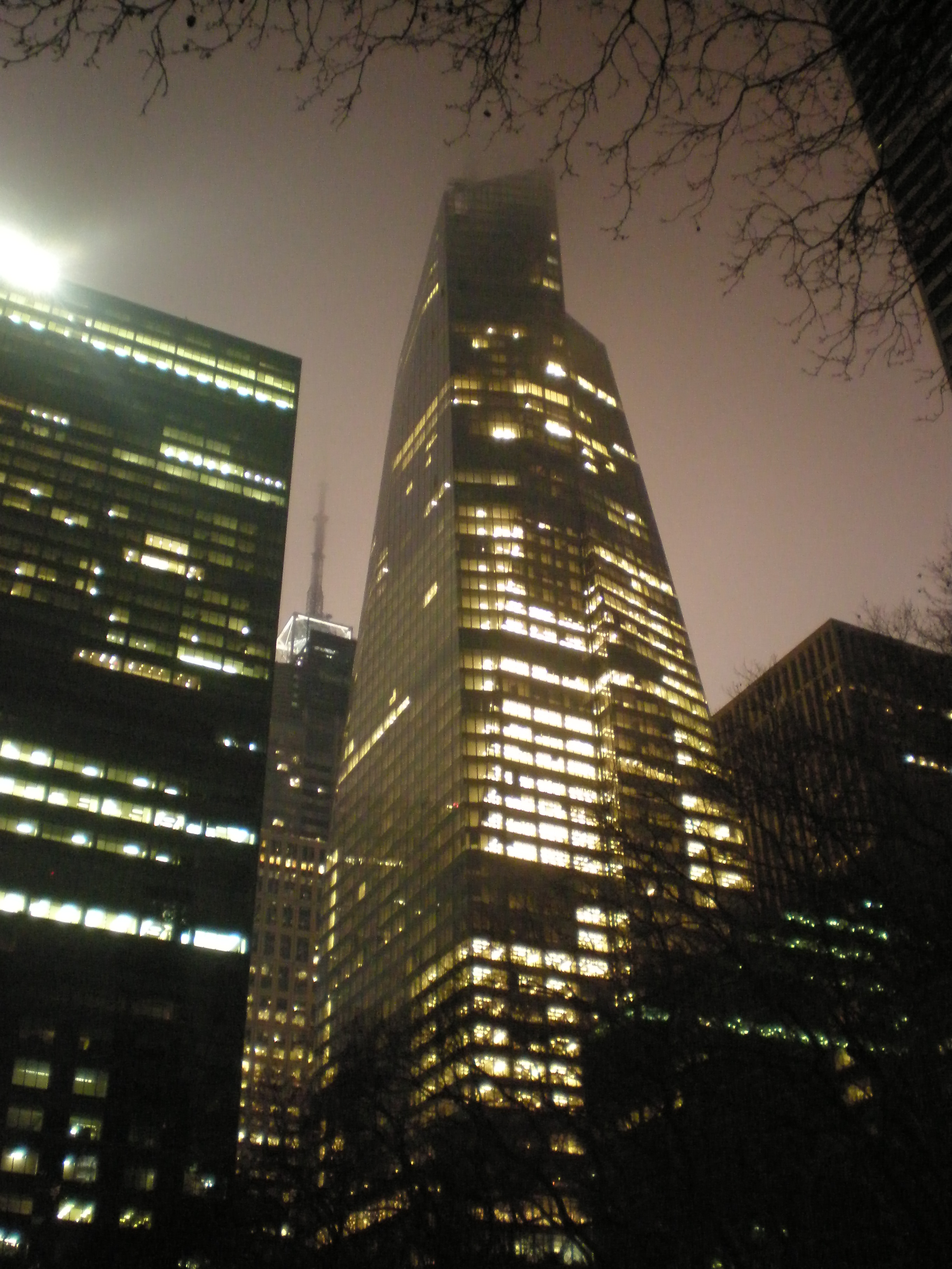 Bank of America Tower by night, as seen from Bryant Park.